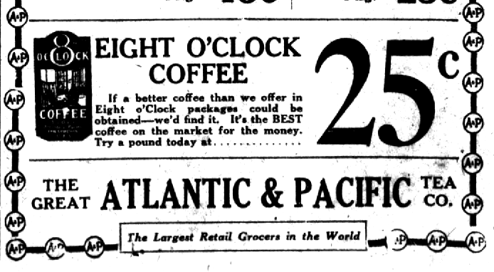 1922 A&P newspaper ad for Eight O'Clock coffee, costing 25 cents.